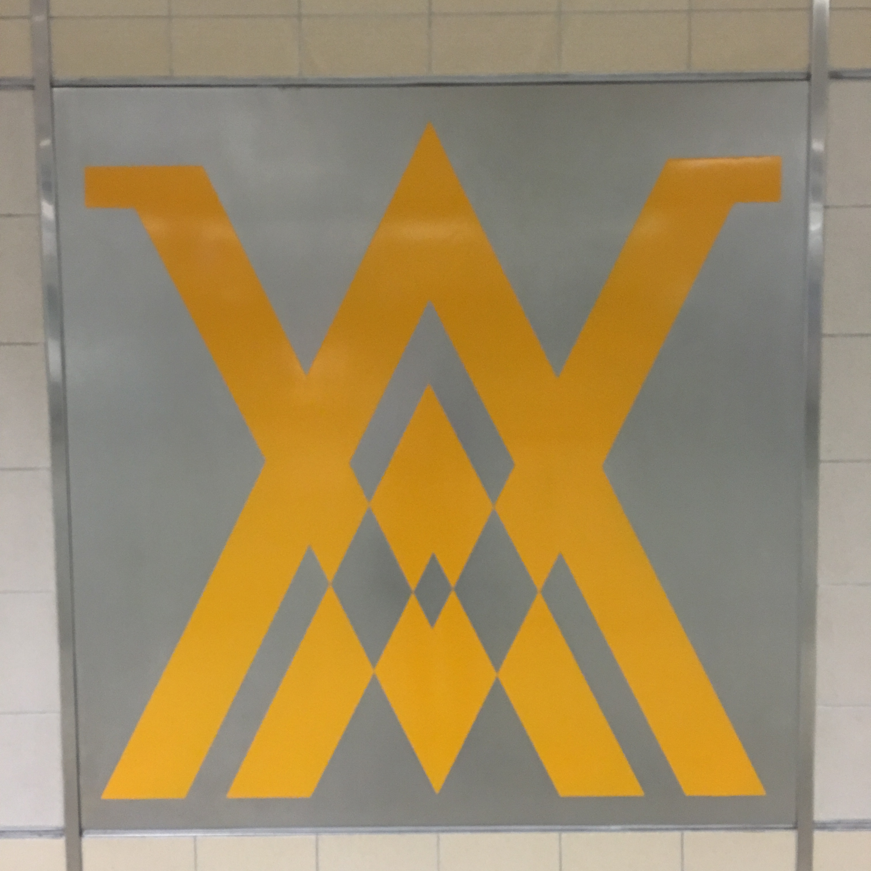 The symbol of Queen Sirikit Centre Station